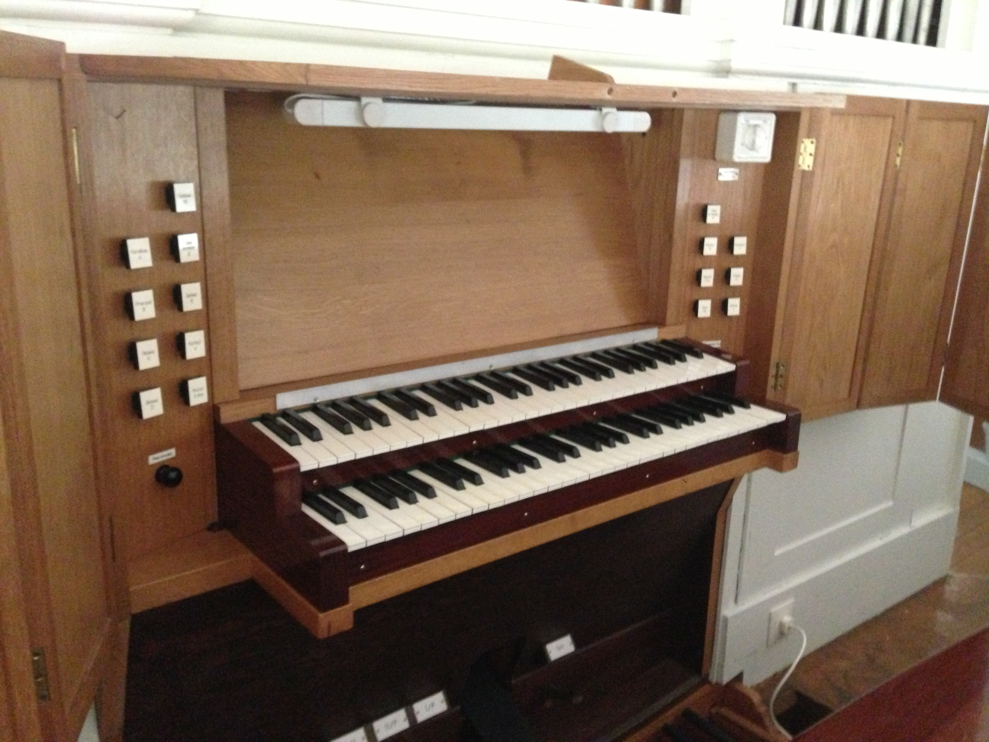 Organ in Segerstads kyrka, Öland, Sweden